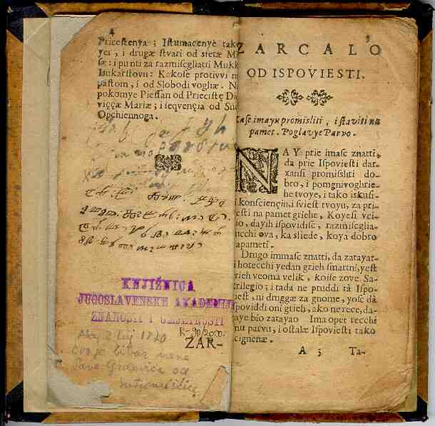 First page of "Zrcalo od ispoviesti", 1606 work of Aleksandar Komulović